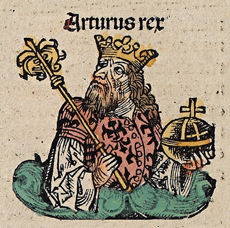 Woodcut from the Nuremberg Chronicle